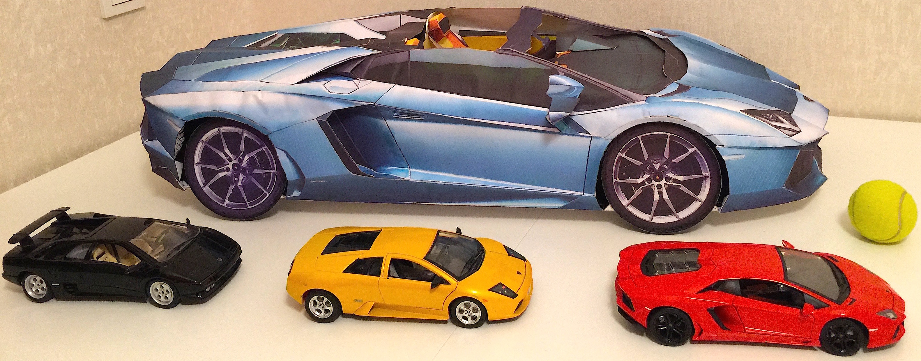 world's first paper model made from only 4 photos